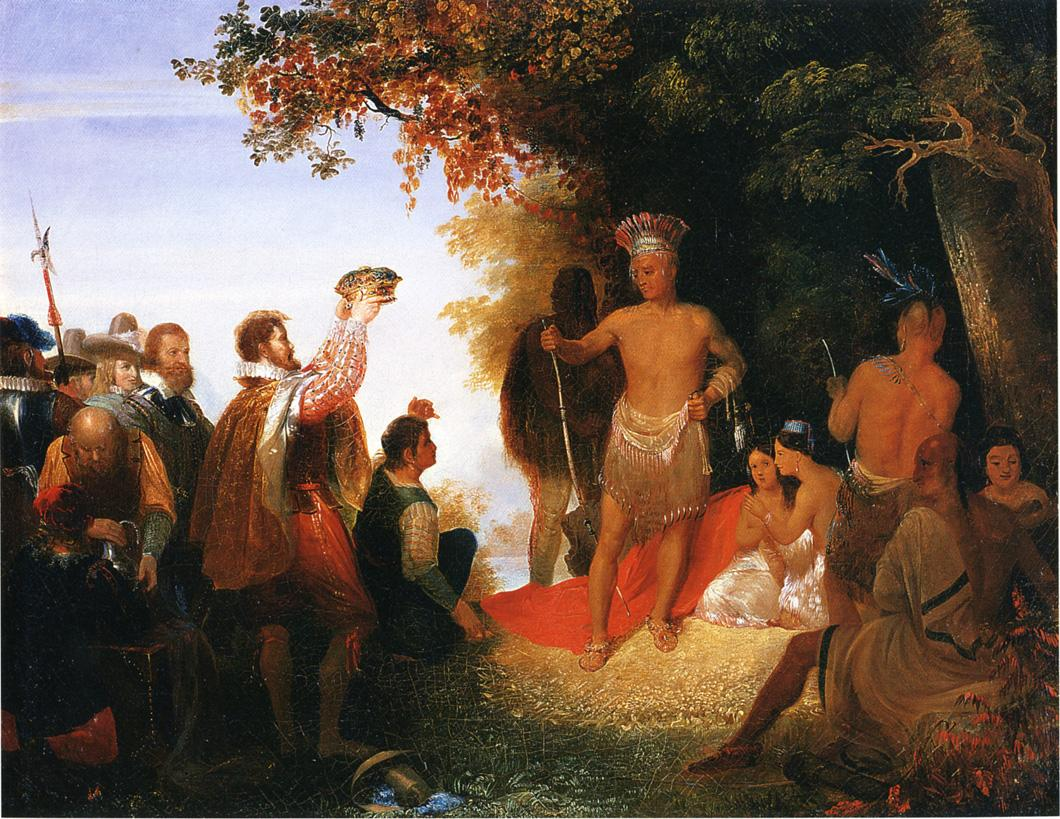 "The Coronation of Powhatan," by the American artist John Cadsby Chapman, oil on canvas. Courtesy of the Greenville Museum of Art, Greenville, South Carolina.